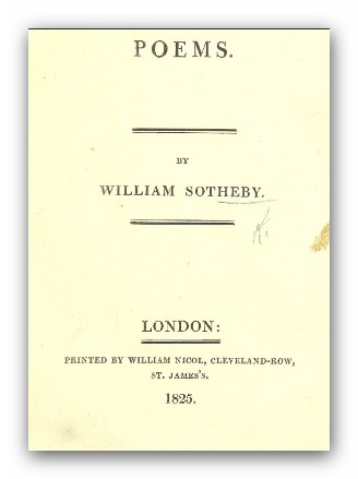 Page 8 of Poems